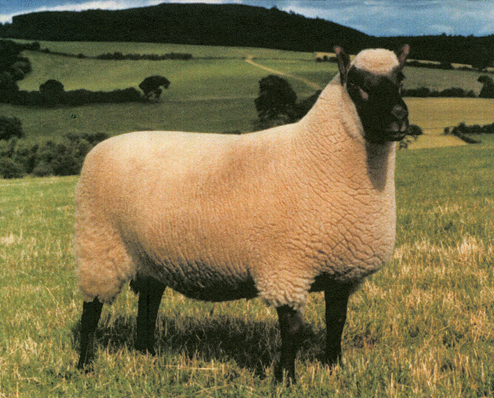 1980 Pen-Y-Wern Ram